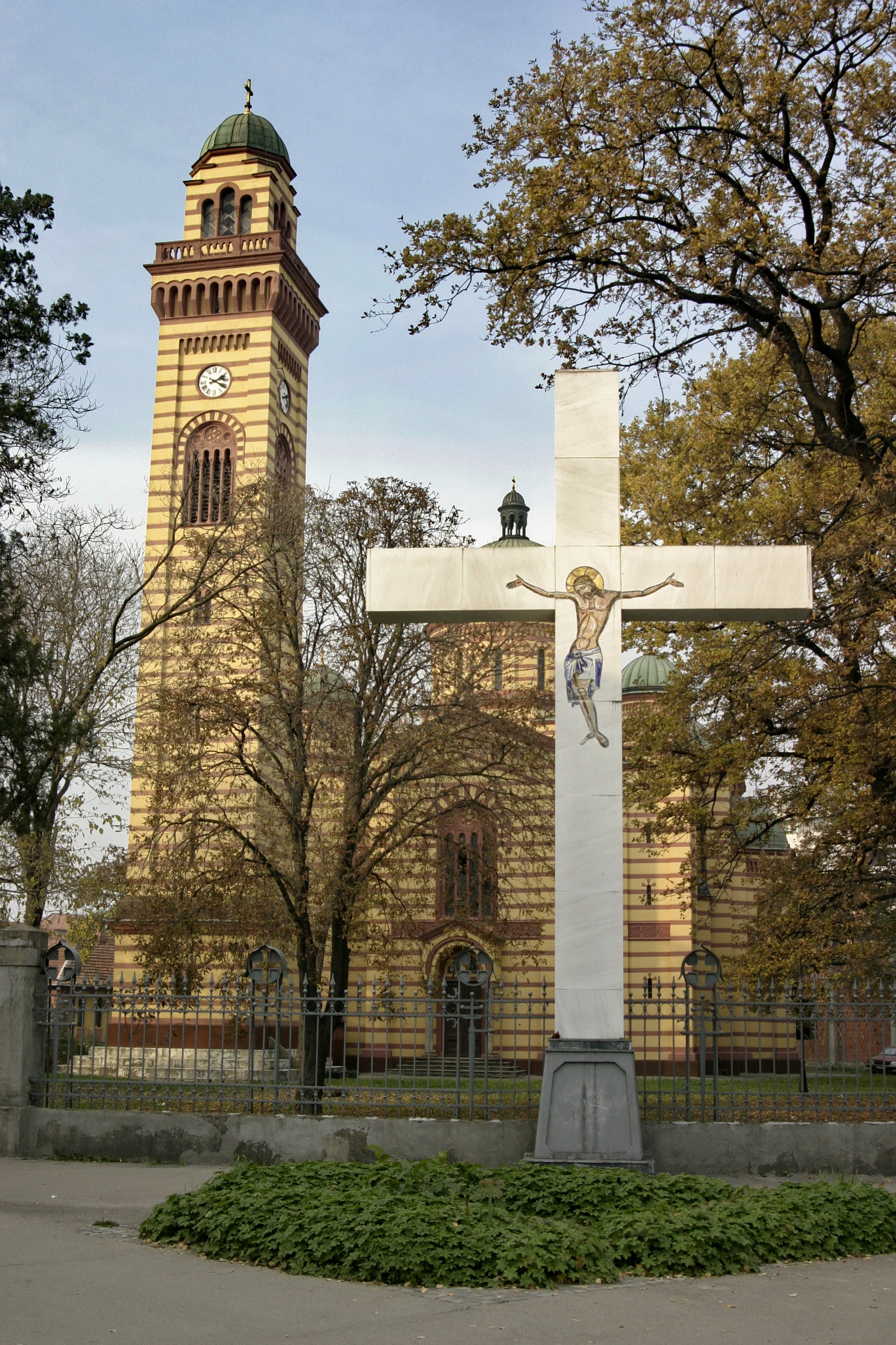 Church of St. Peter and Paul, Jagodina, Serbia